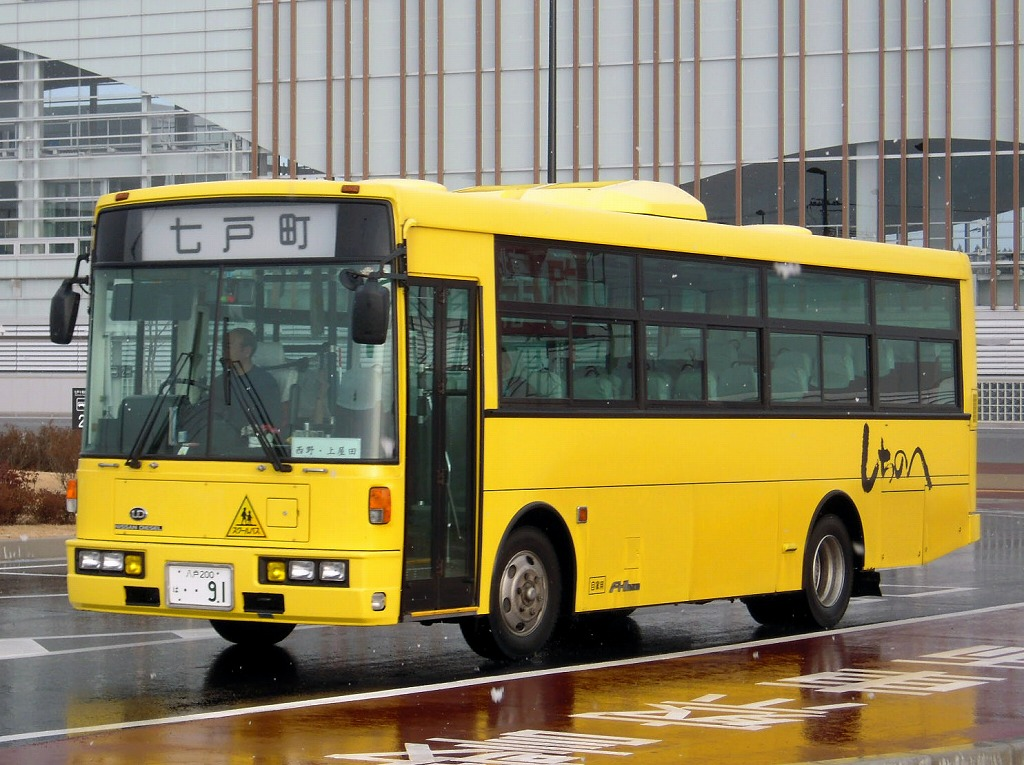 Shichinohe town community bus Nissan diesel Space Runner RM (KK-RM252GAN)